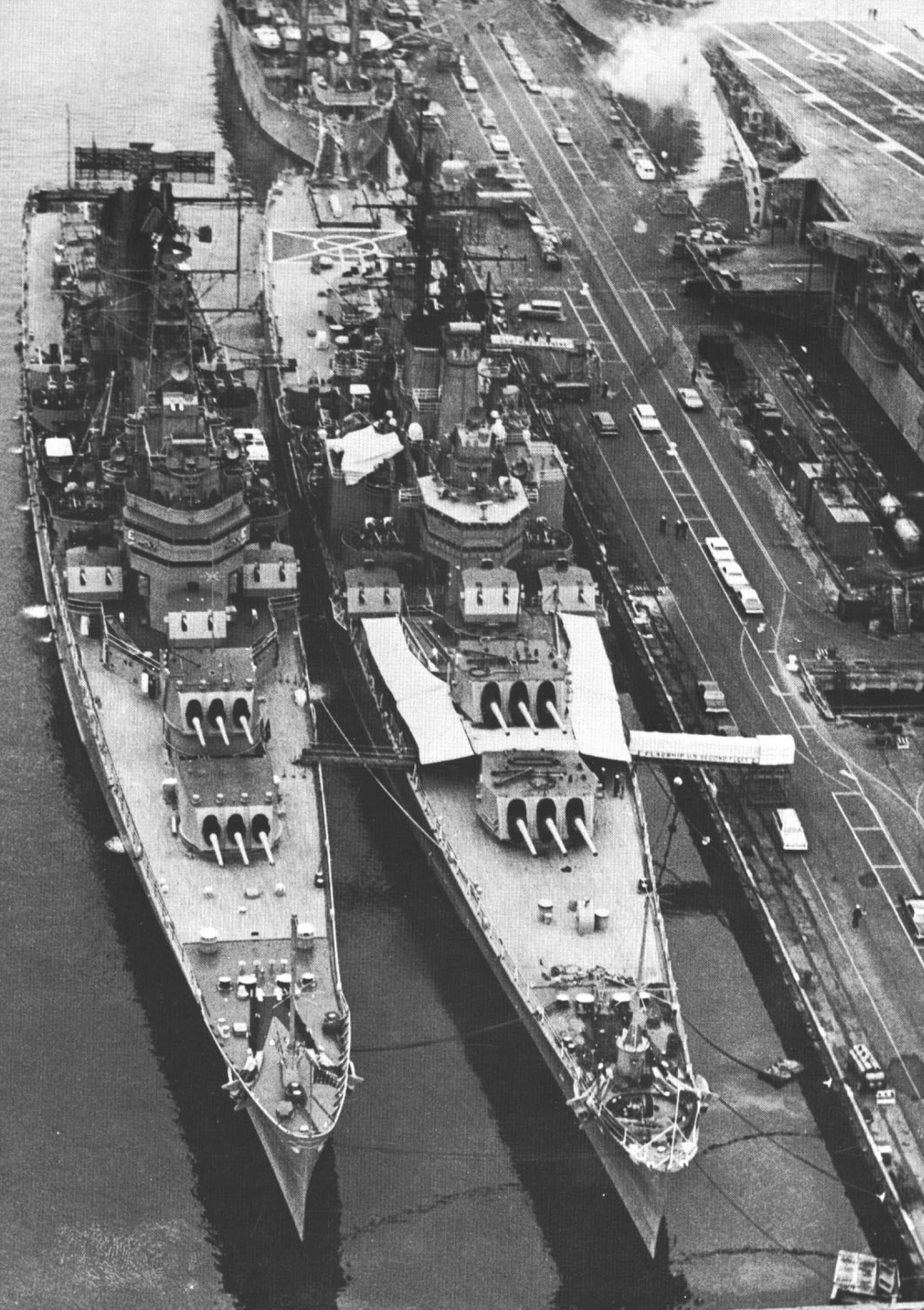 The U.S. Navy cruisers USS Boston (CAG-1), left, and USS Newport News (CA-148) at Norfolk, Virginia (USA), circa 1966. The banner on Newport News´ gangway reads "Flagship US Second Fleet".